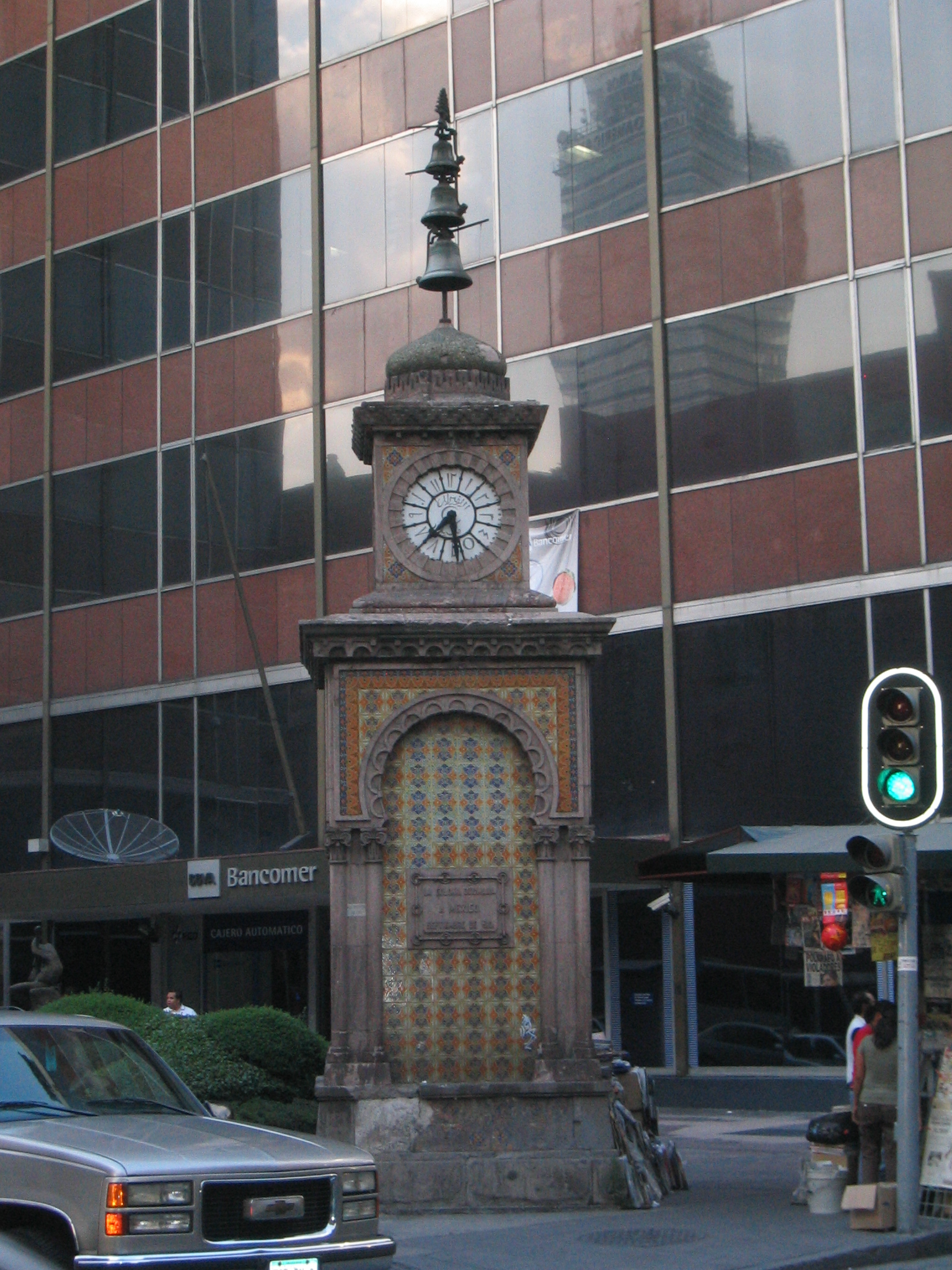 Ottoman clock tower in Mexico City